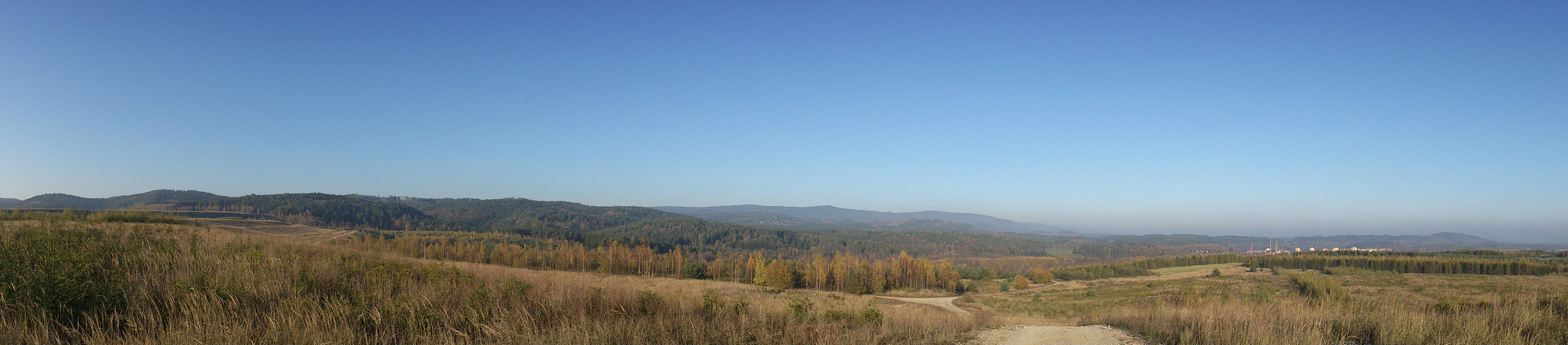 Panoramic view of "Smolnická výsypka" (dump) to the northeast. Buildings and chimneys belong to the town Nová Role.